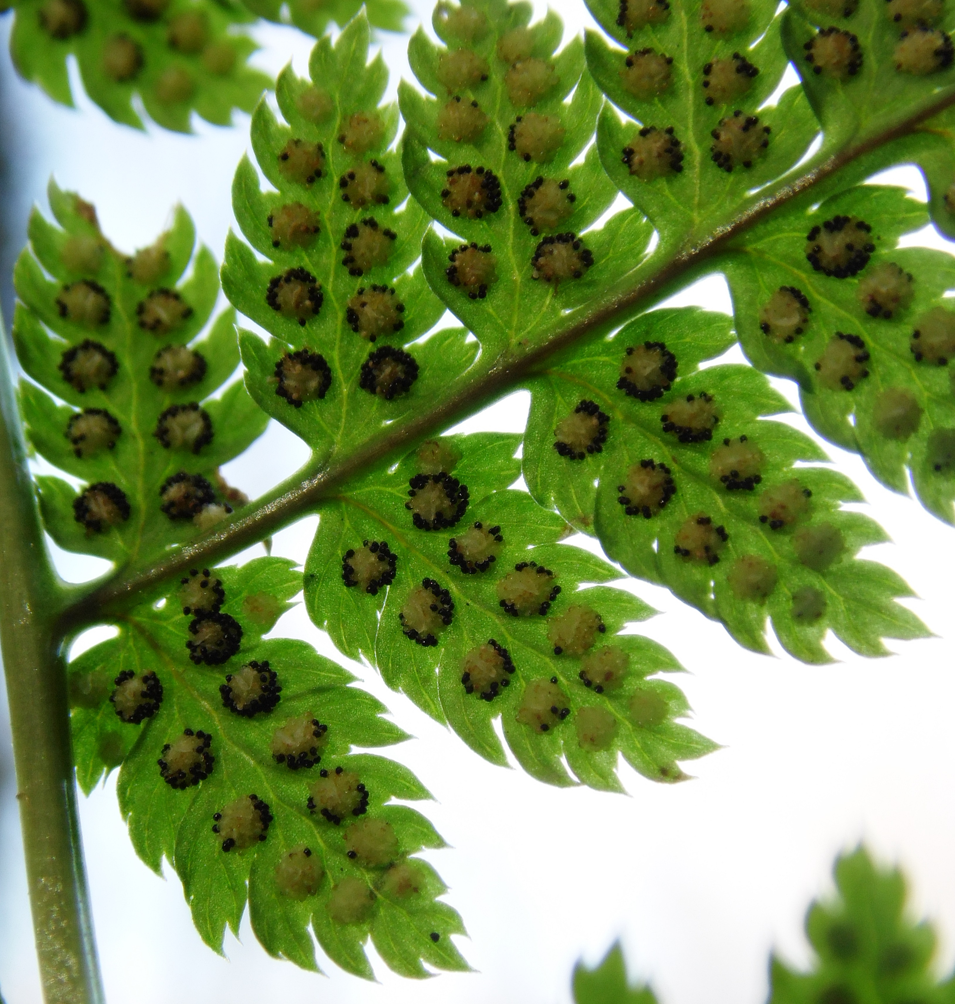 Dryopteris carthusiana